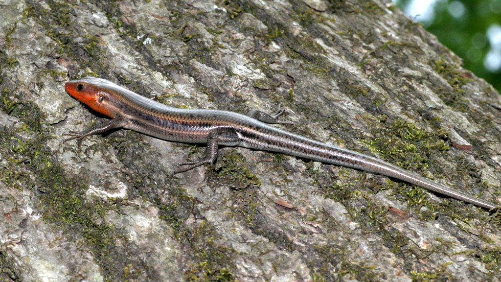 Five-lined Skink, Eumeces fasciatus, adult male. Location: Durham County, North Carolina, United States